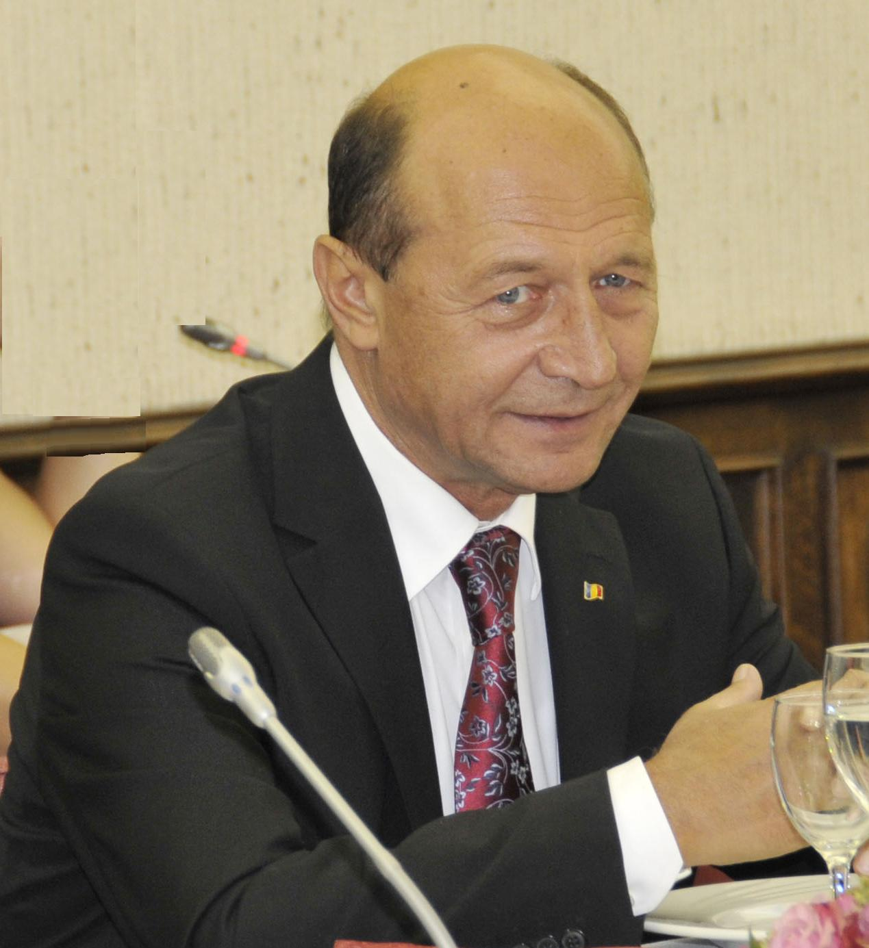 Traian Basescu at EPP Summit September 2010